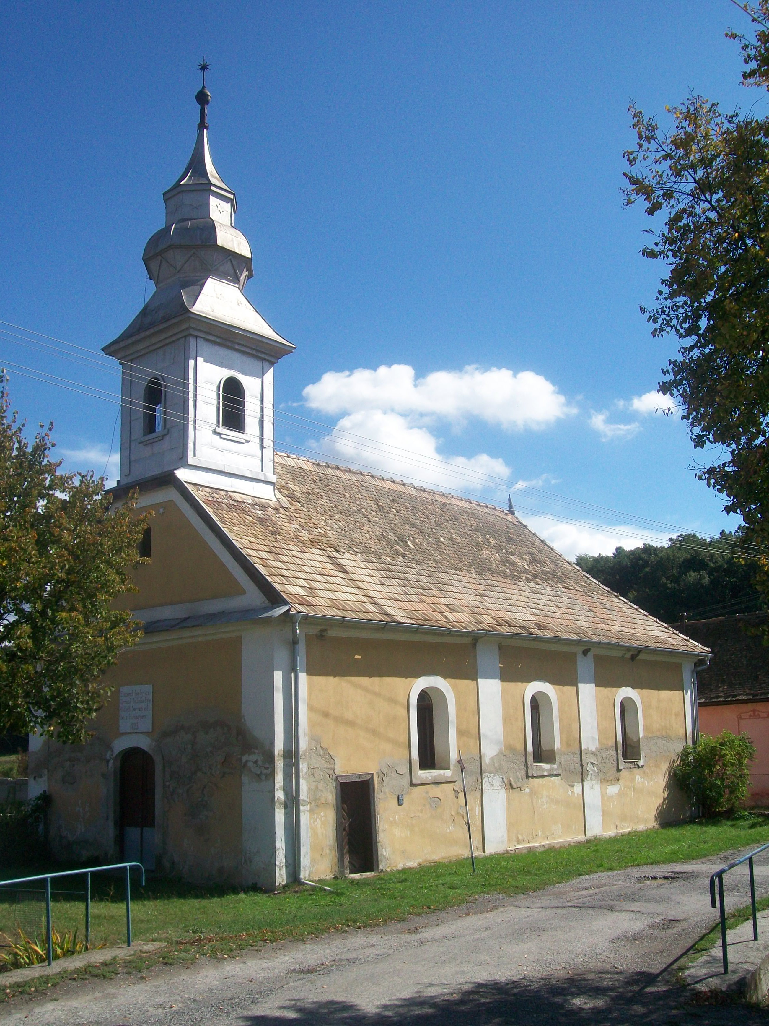 Church in Mojín (Rimavská Sobota)